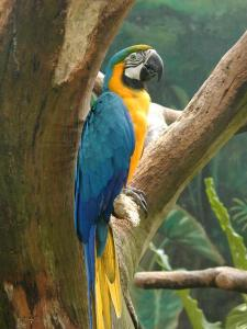 Blue-and-yellow Macaw